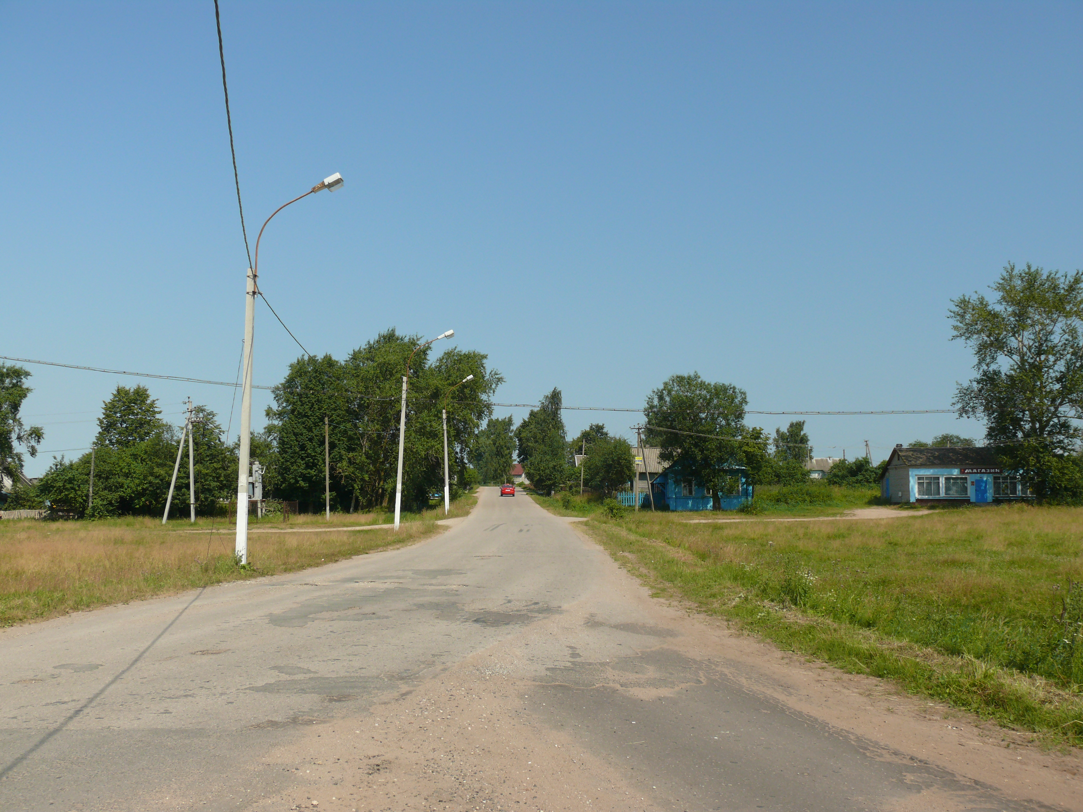 The enter in Volotovo village, Novgorodsky district, Novgorod oblast, Russia